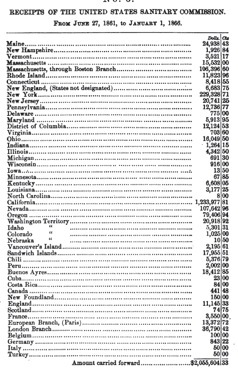 List of donations to the United States Sanitary Commission